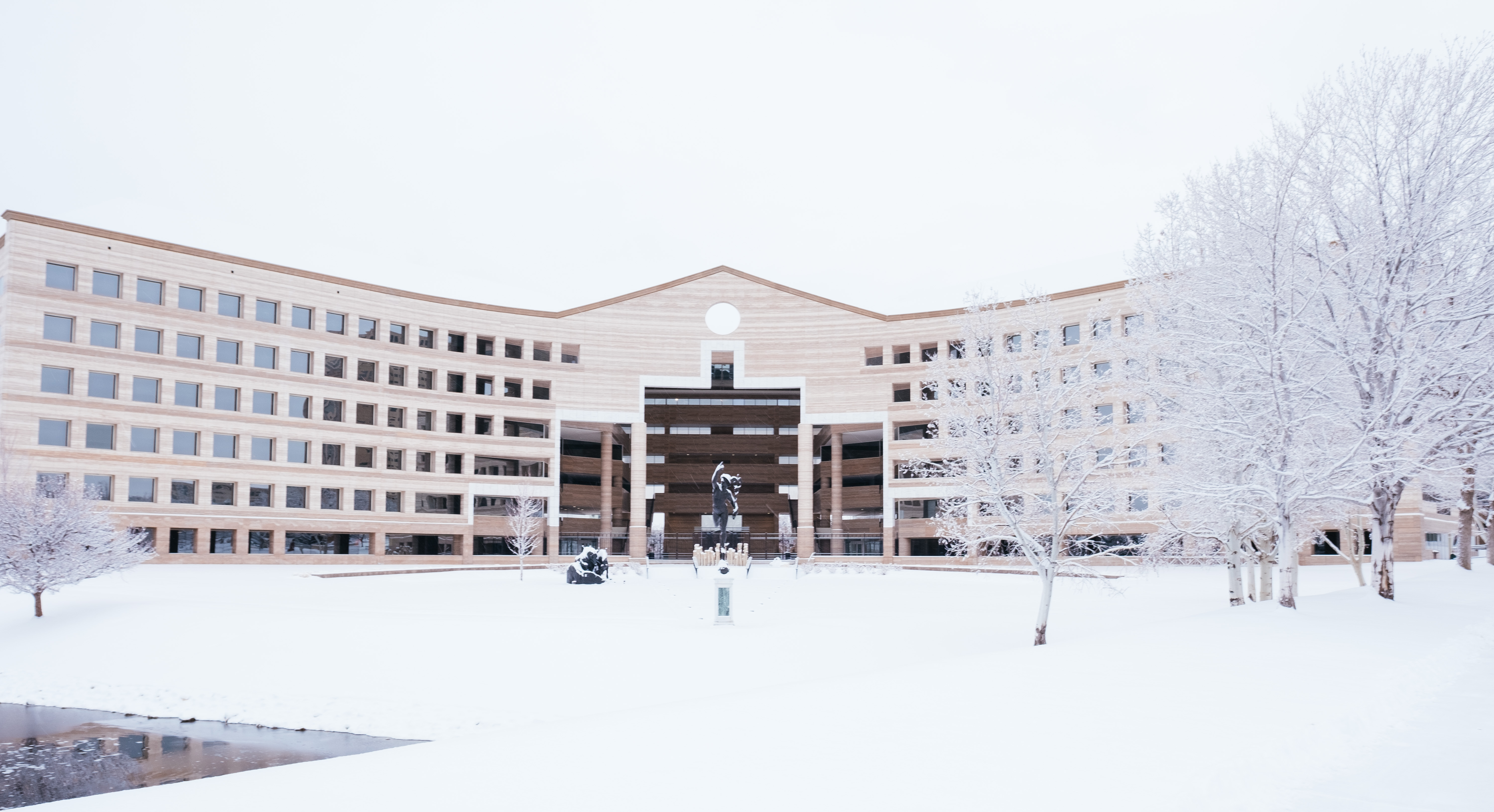 Xanterra Headquarters